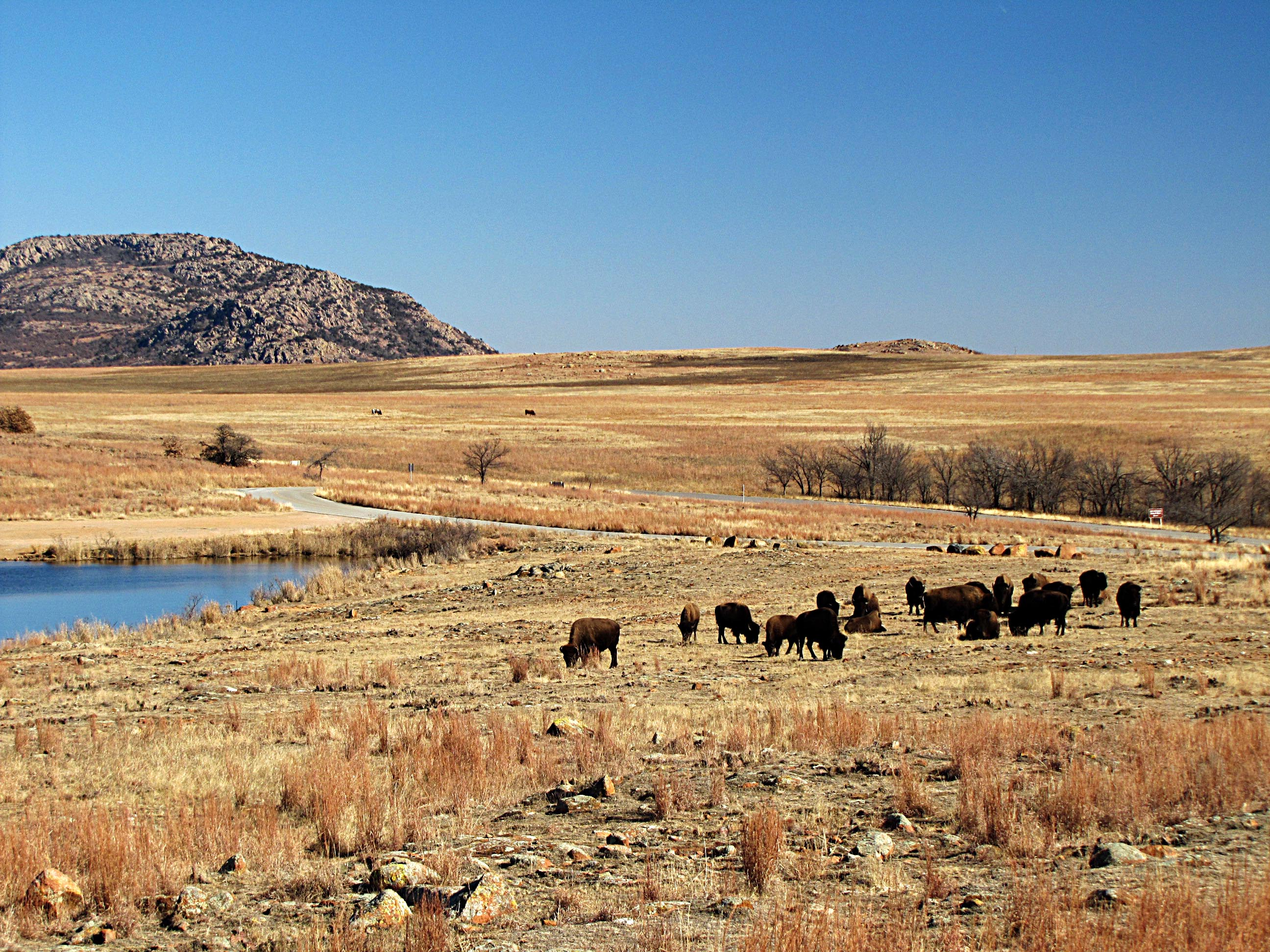 Buffalo grazing at Lake Jed Johnson in the Wichita Mountains near Lawton, OK.